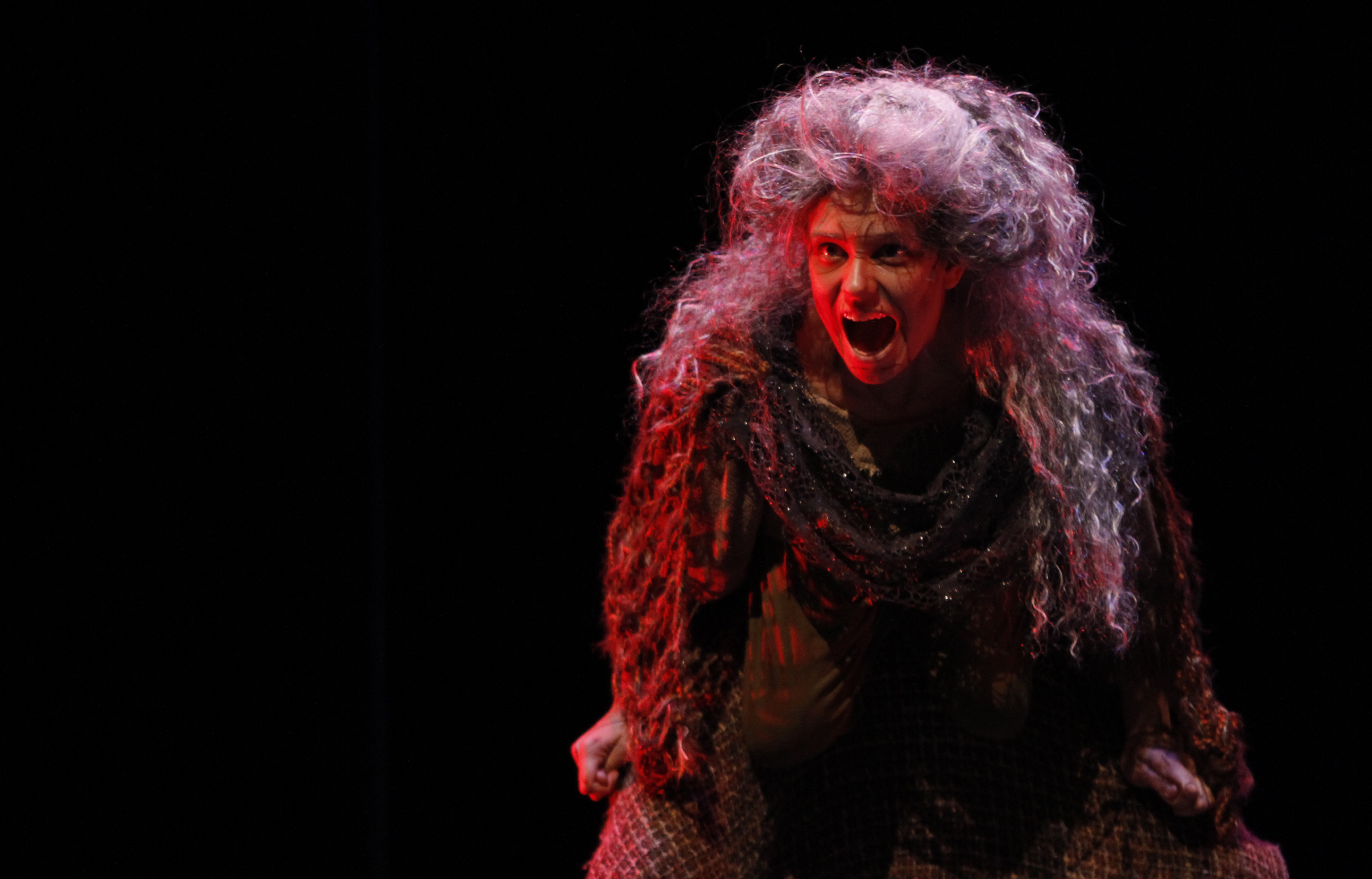 Grandma- Aubree Tally Photo by Karl Kuntz